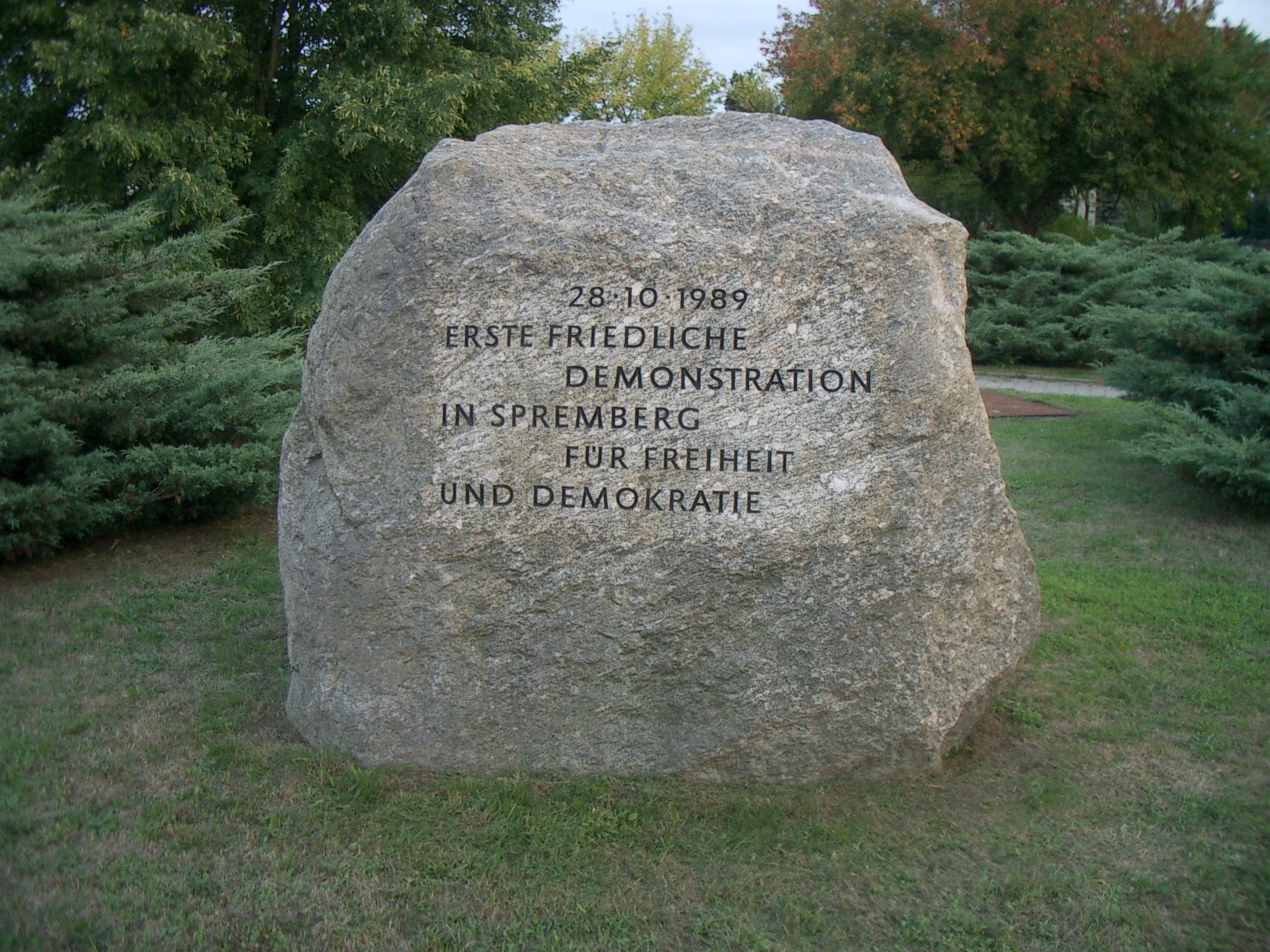 Monument for Demonstrations in 1989 in Spremberg